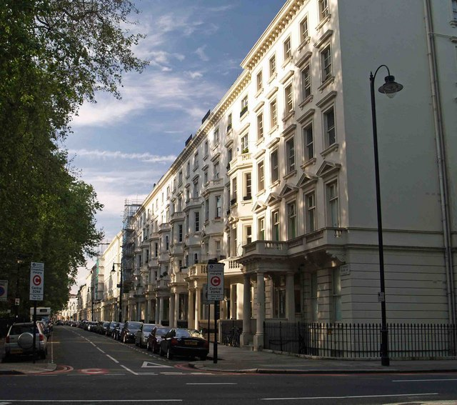 St. Georges Square Pimlico London. Tall white, 1840s classical residential buildings lining the east side of St George's Square, Pimlico, Westminster, London and a partial view of the tall trees in the garden which they face.